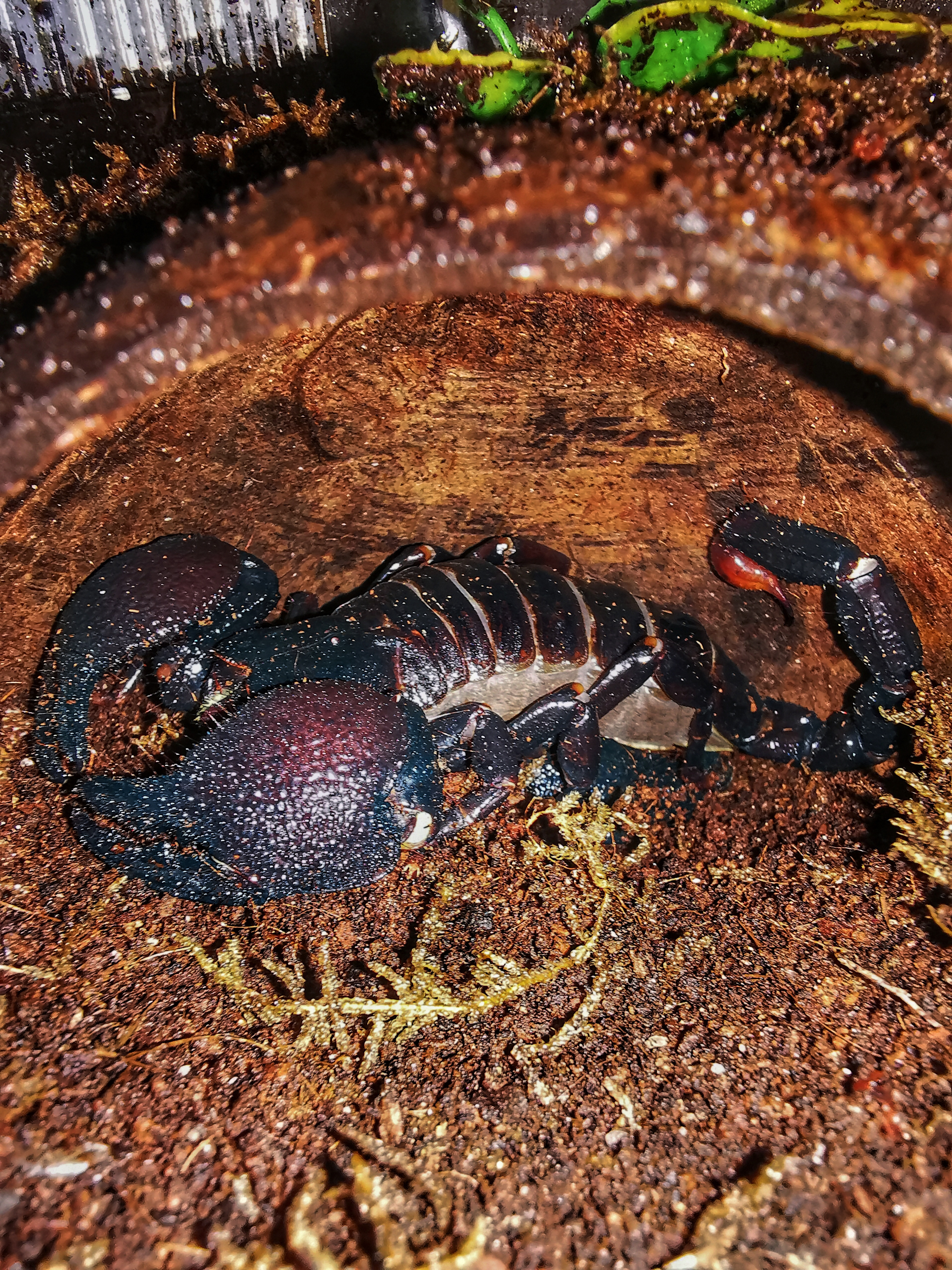 Emperor scorpions have rough, thick, and often reddish claws.